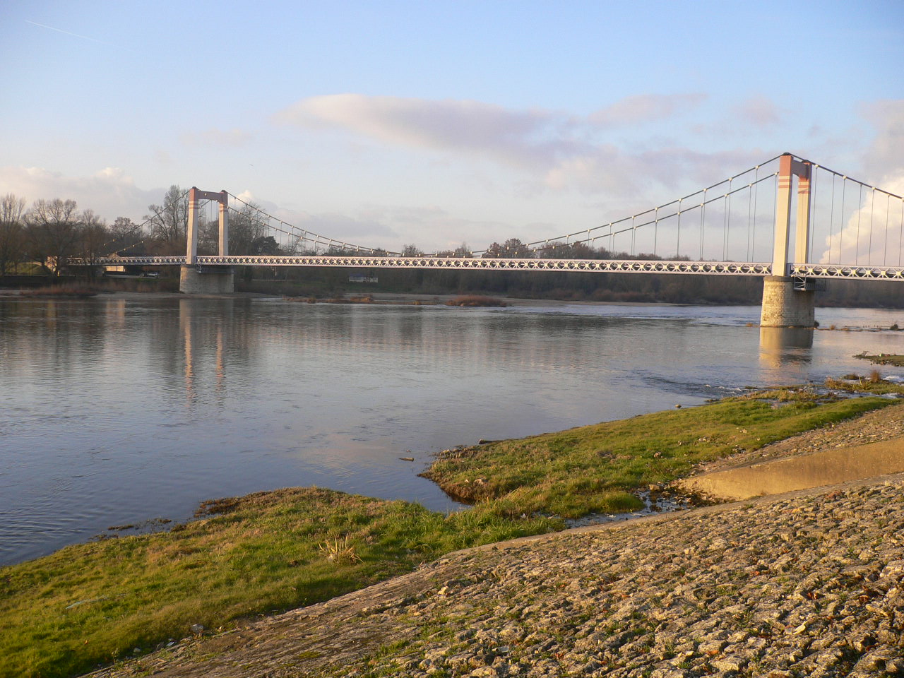 The bridge (south side) in Cosne-Cours-sur-Loire, Nièvre, Bourgogne, France